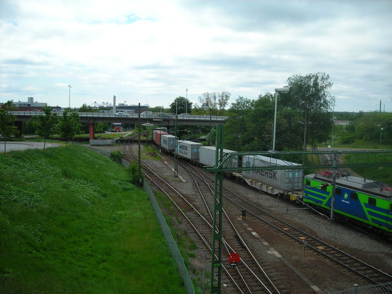 Photo showing Göteborg Port Railway. Foto som visar Göteborgs hamnbana.